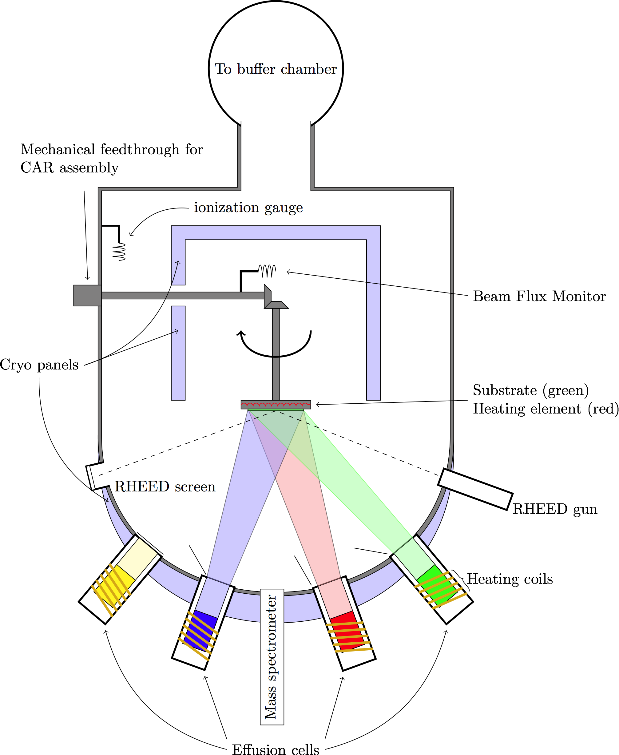 Molecular Beam Epitaxy growth chamber.